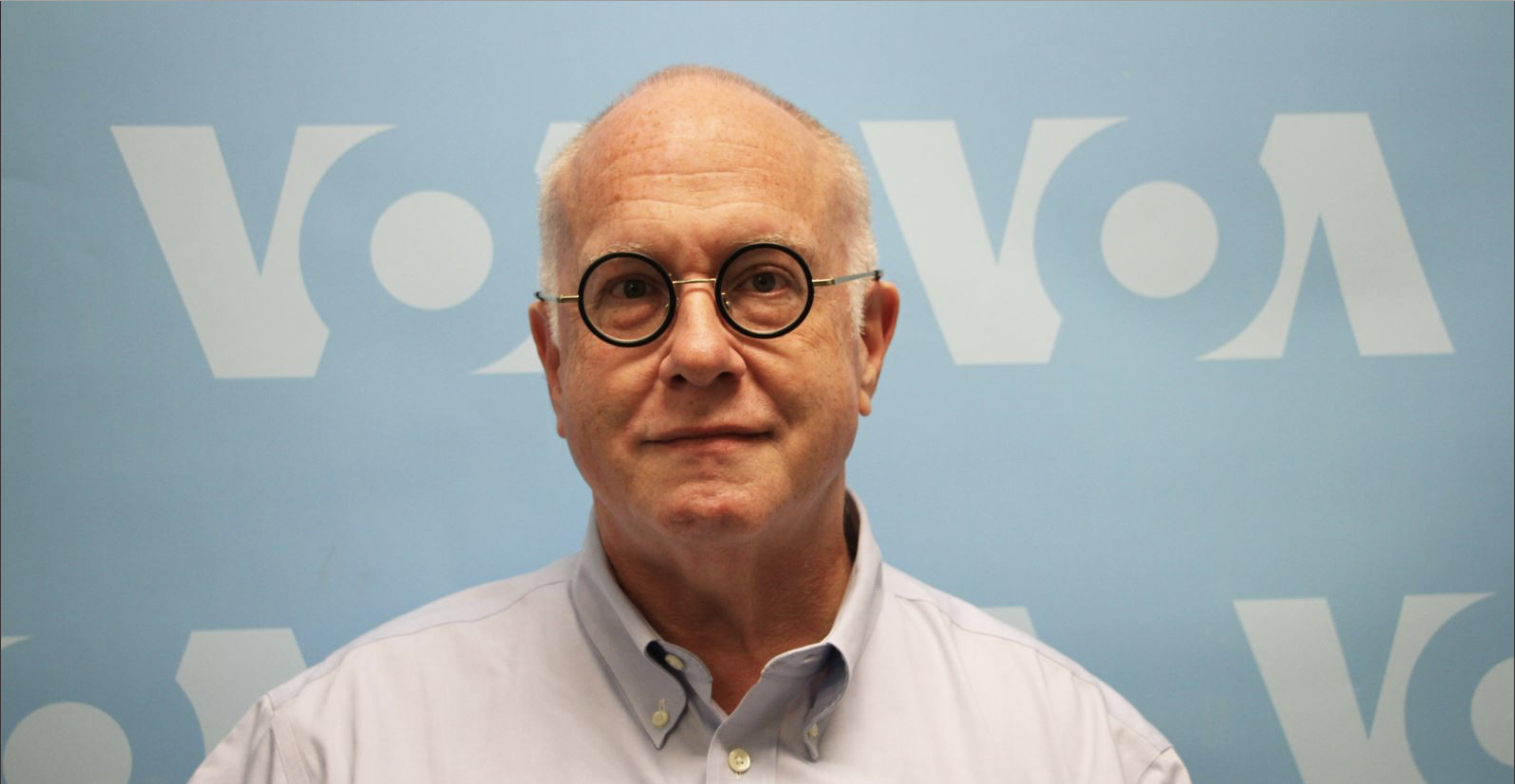 Source page. This photograph was taken to illustrate a voice interview given by Mike Godwin to Voice of America/Cambodia (a.k.a. VOA Cambodia or VOA Khmer). Photo taken at VOA headquarters: 330 Independence Ave SW, Washington, DC 20237